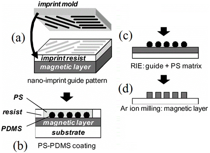 a) Templit kasutatakse jäljendite moodustamiseks resistil. b) BCP sadestatakse jäljendeid täitma. c) Kraavide seinad ja PS komponent eemaldatakse. d) BCP kantakse üle all olevale magneetilisele kihile.